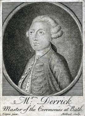 Engraving of Samuel Derrick, a poet, writer, and Master of the Ceremonies at Bath: this was based on a portrait by Vesprit and engraved by W. Hibbart. The image was first published on p. 177 of The Town and Country Magazine (April 1769) and was meant to illustrate Anecdotes of the Life of Samuel Derrick, Esq..[1]